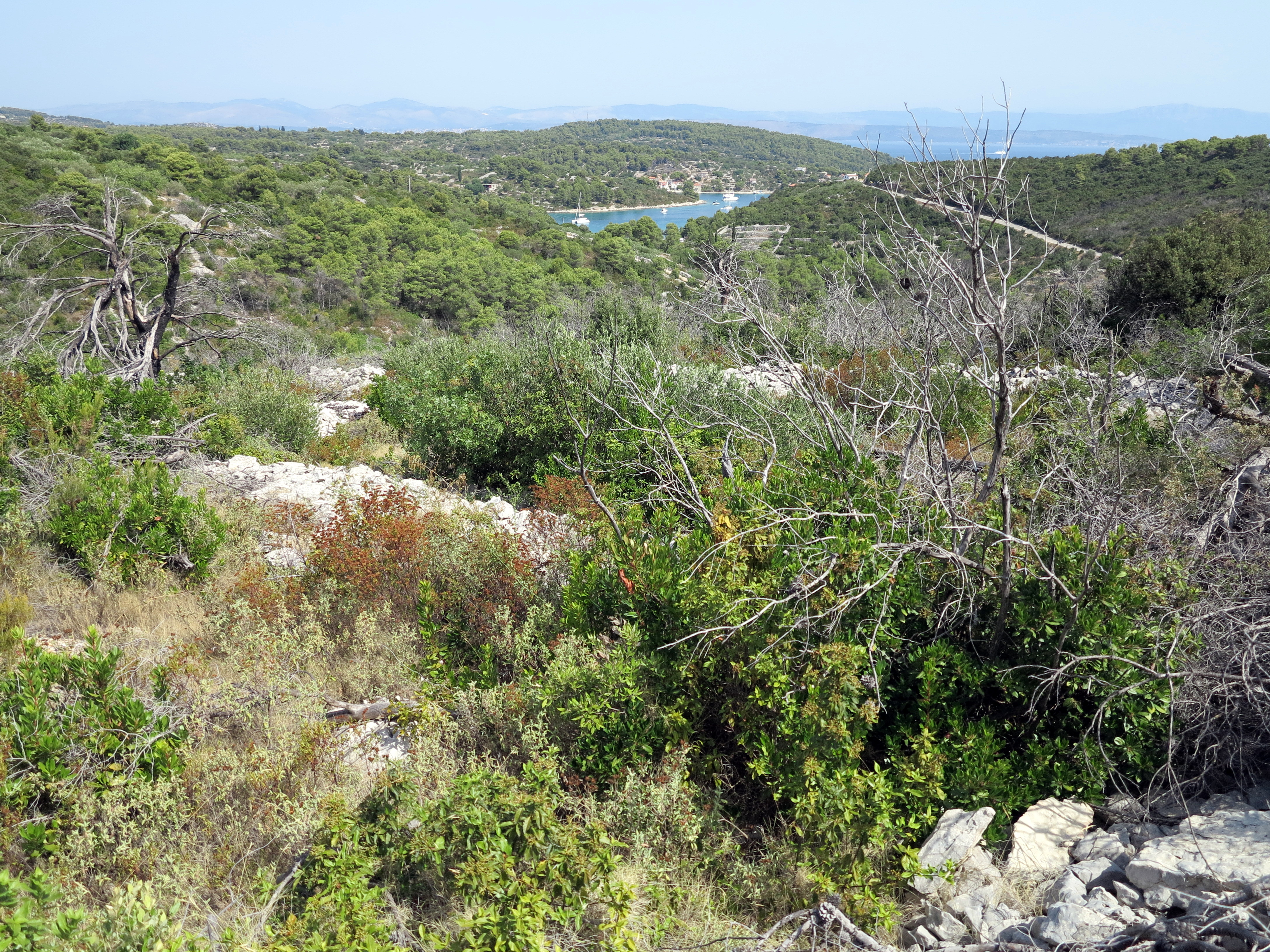 The bay of Nečujam Šolta / Croatia / Adriatic Sea. In the background the mountains near Split. View towards the northeast.